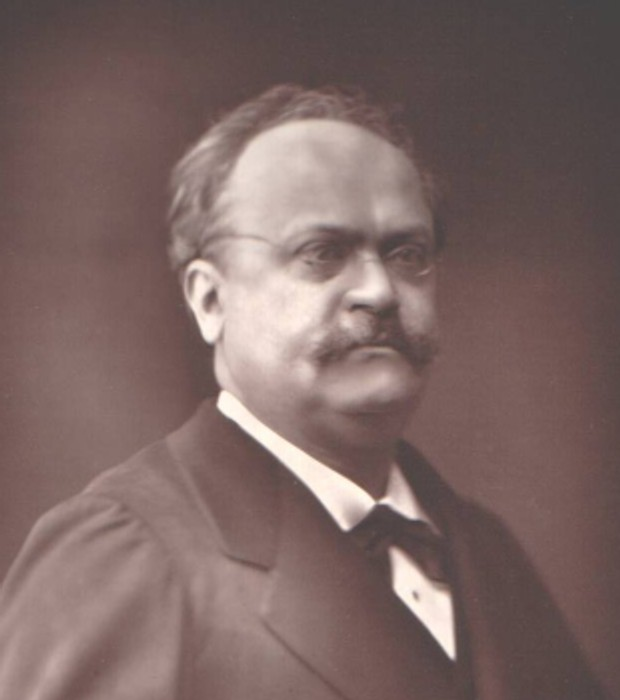 Alexandre Charles Lecocq, (1832 – 1918). Photo taken 1880 by Pierre Petit (1832 – 1909).